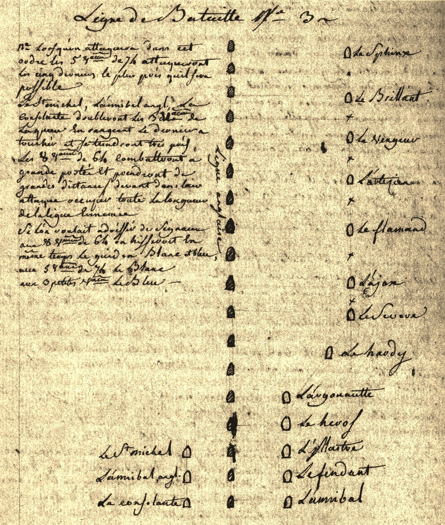 Battle Plan envisaged by Suffren for the Battle of Cuddalore (1783). In black: the English ships. White is the French ships. The plan was to create a diversion by attacking far the first 12 English ships with only eight French ships and attack the British rear guard as close as possible on both sides to destroy it. But the plan too risky was not used.